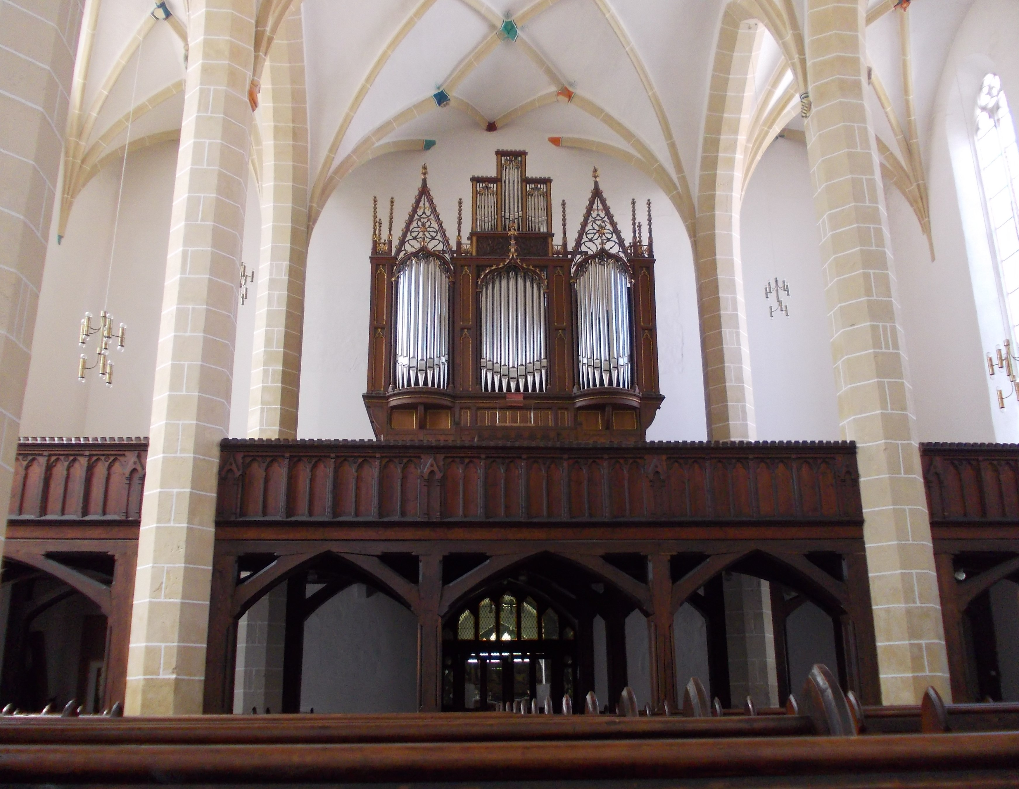 Saints Peter and Paul Church in Delitzsch (Nordsachsen district, Saxony), Rühlmann organ